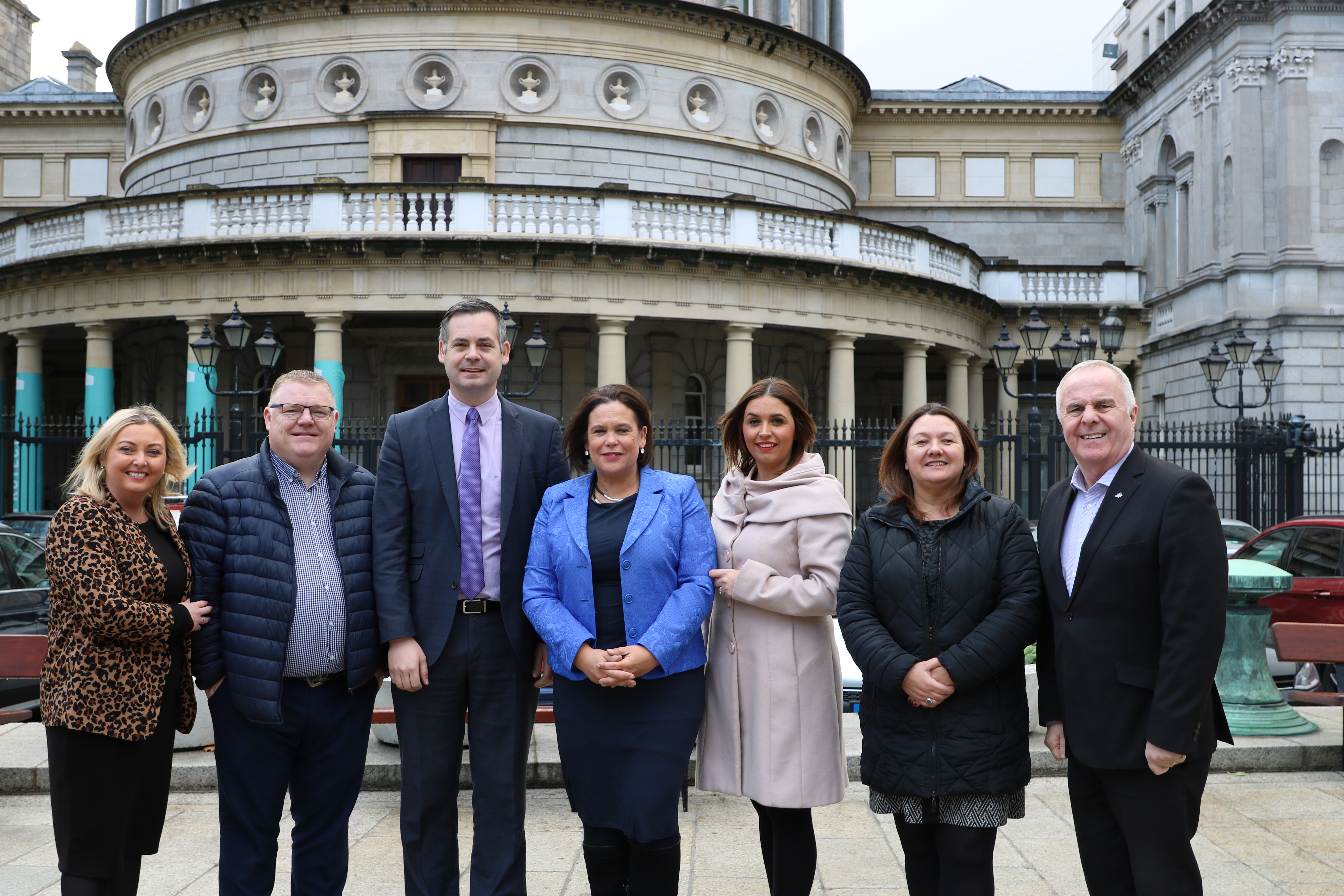 Karen Mullen MLA, Declan McEteer MLA, Pearse Doherty TD, Mary Lou McDonald TD, Elisha McCallion MP, Michela Boyle MLA & Raymond McCartney MLA